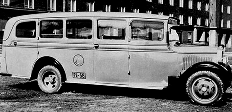 Sisu S-322 post bus from 1934.